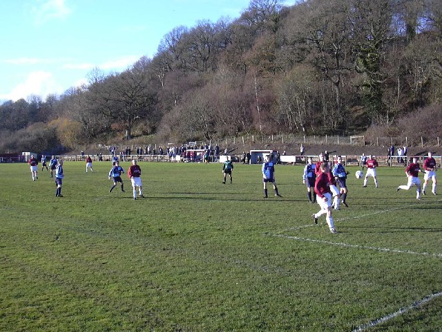 Rosebank, home of Lugar Boswell Thistle FC, Lugar, East Ayrshire. For some unknown reason Lugar look to be playing in their blue and light blue away strip.